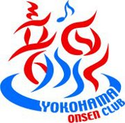 Logo of Yokohama Onsen Club